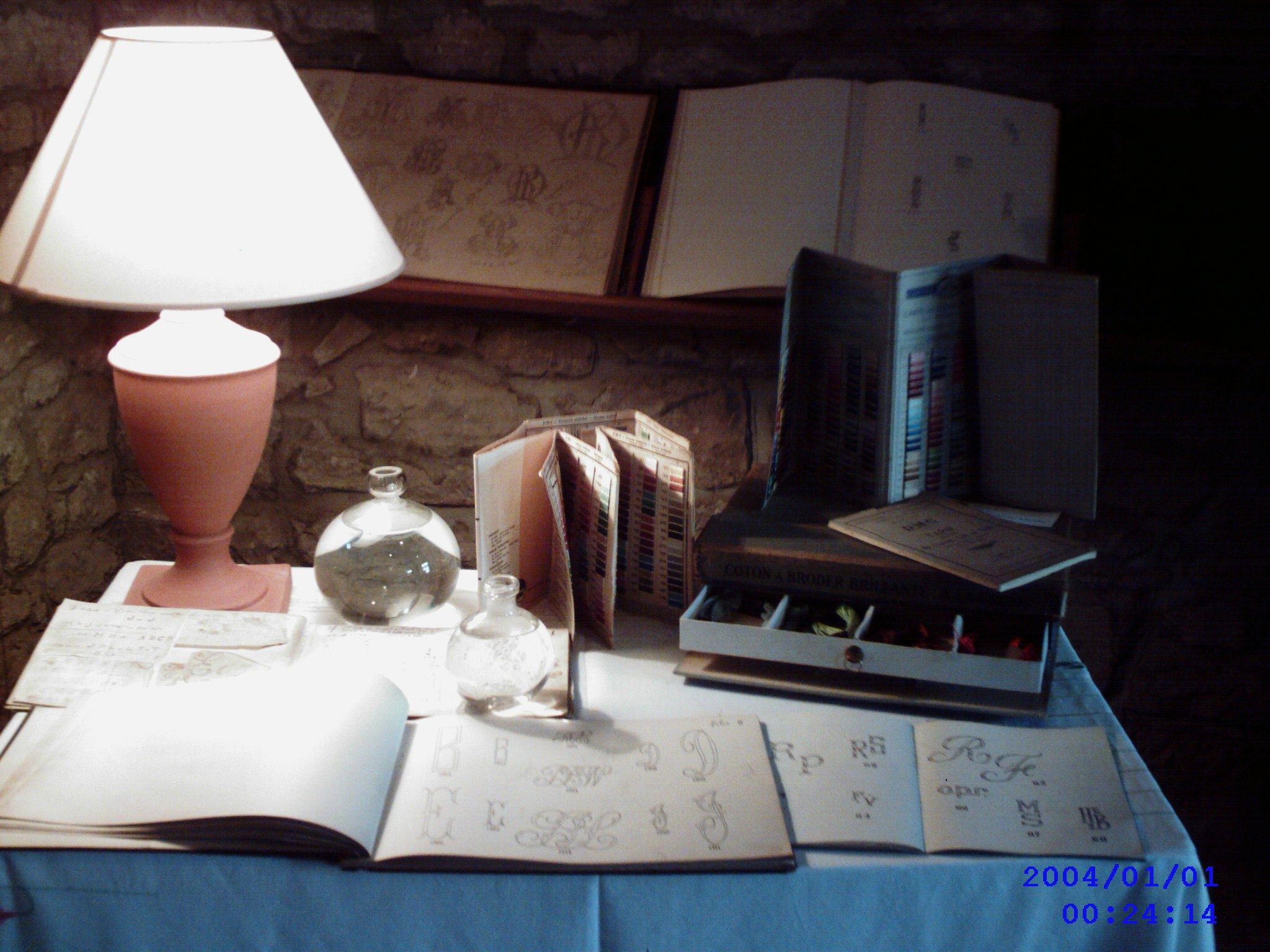 Template books, string samples, magnifying glasses for embroidery